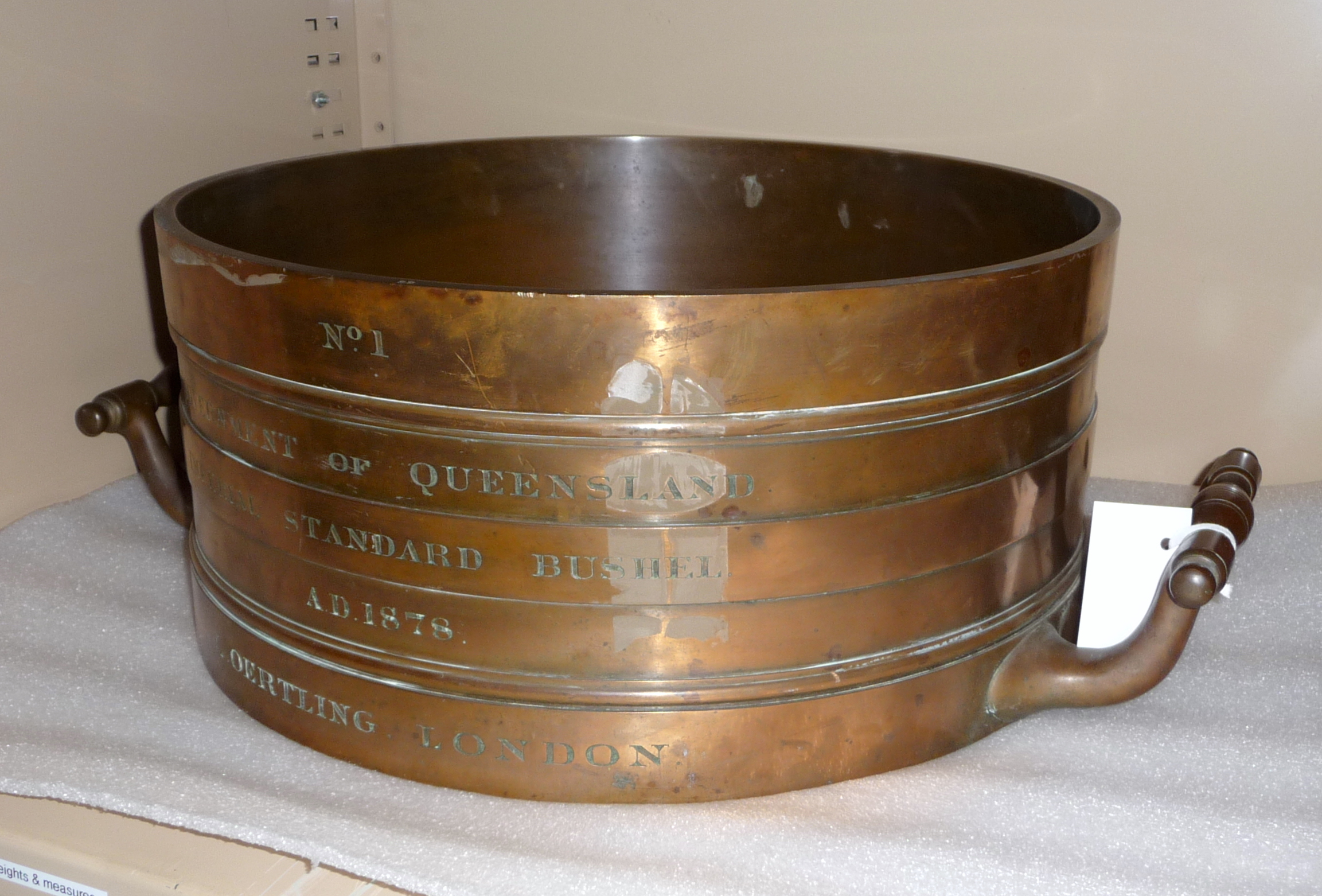 Government of Queensland No.1 Standard Bushel. Brass imperial bushel standard measure. Made in London in 1878 by L. Oertling.